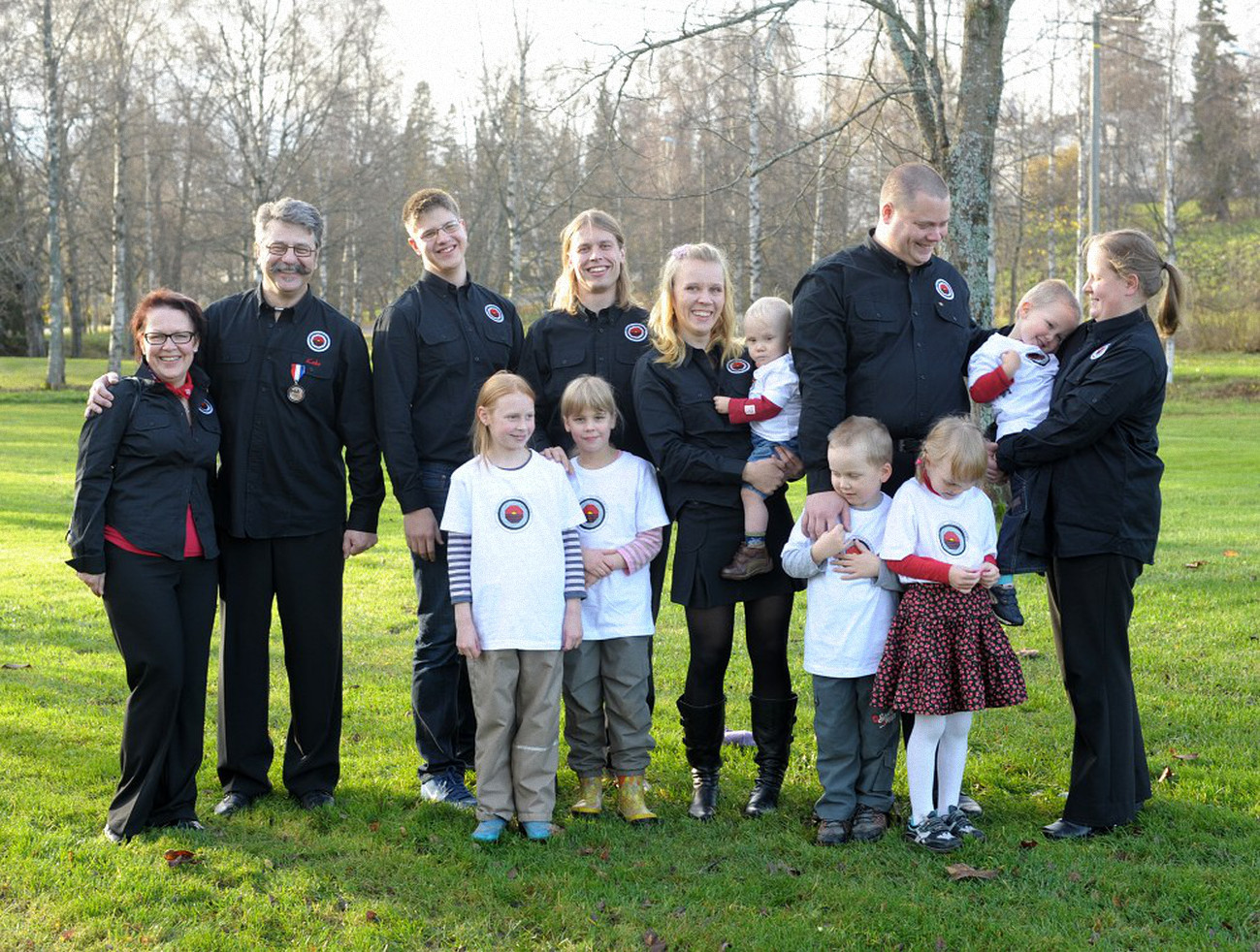 Photoclub Saimaan Kameraseura in Hämeenkyrö 2011